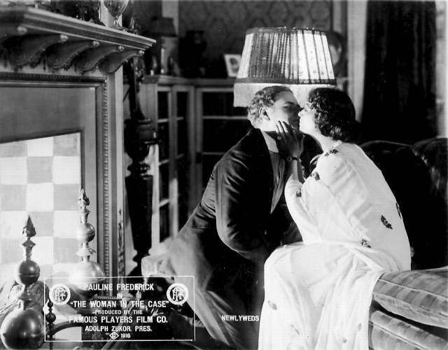 Still from The Woman in the Case (1916) with Alan Hale, Sr. (1892 – 1950) and Pauline Frederick (1883-1938).